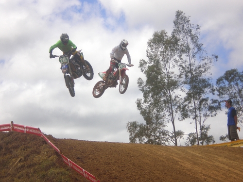 Photograph I took in a mx race at Campos